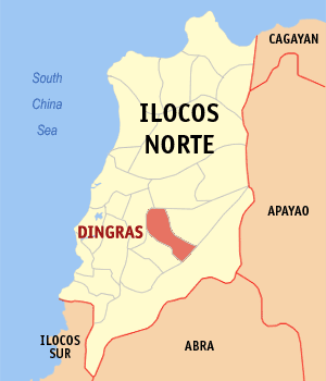 Map of Ilocos Norte showing the location of Dingras